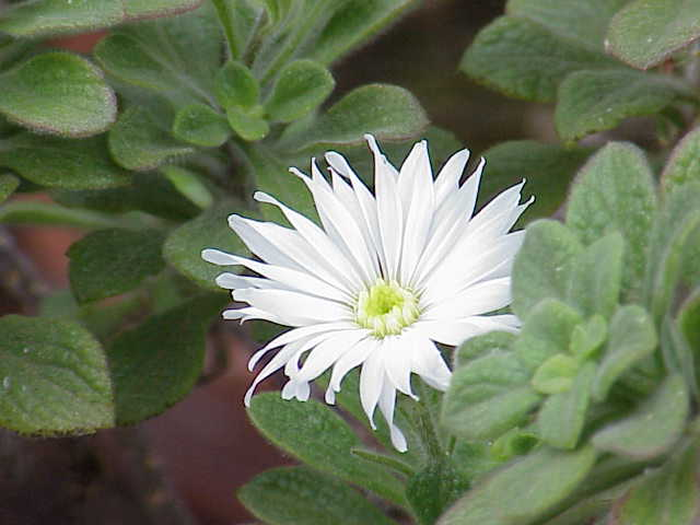 Species: Commidendron rugosum Family: Asteraceae Image No. 2